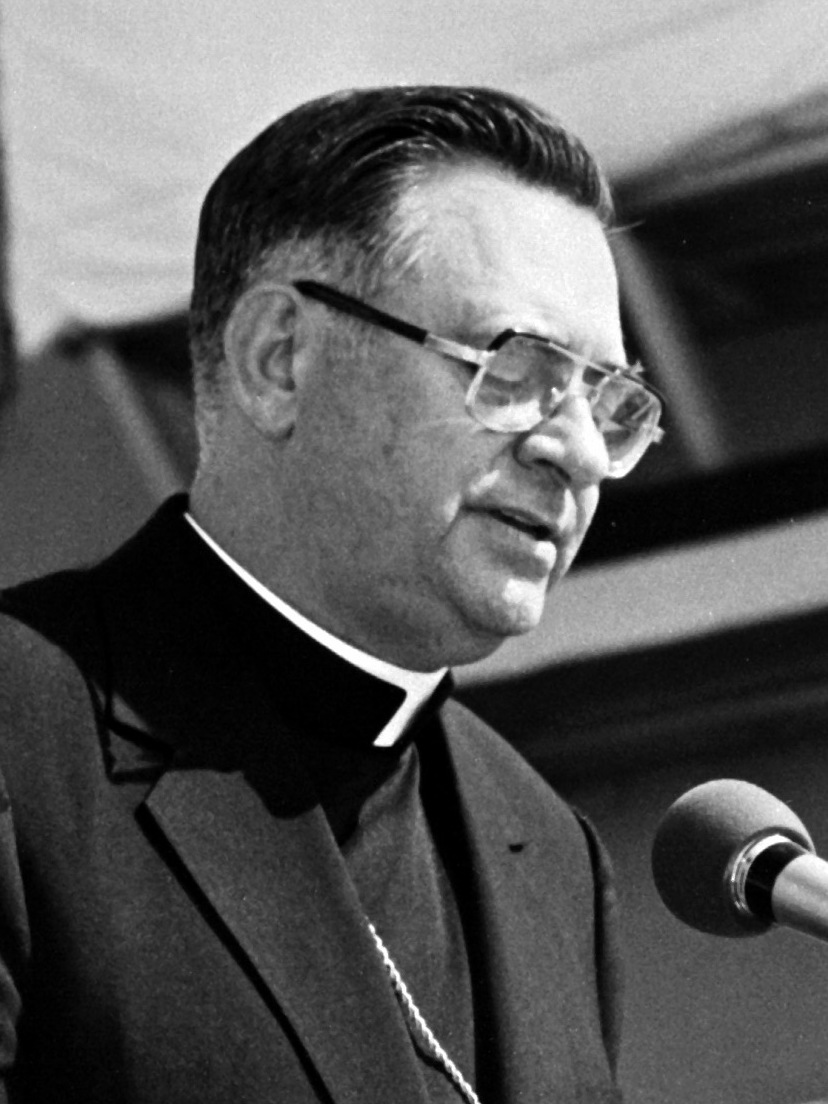 Archbishop Oscar H. Lipscomb gives the invocation during the christening ceremony for the Aegis guided missile cruiser MOBILE BAY (CG-53)